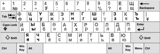 Mongolian Windows keyboard layout